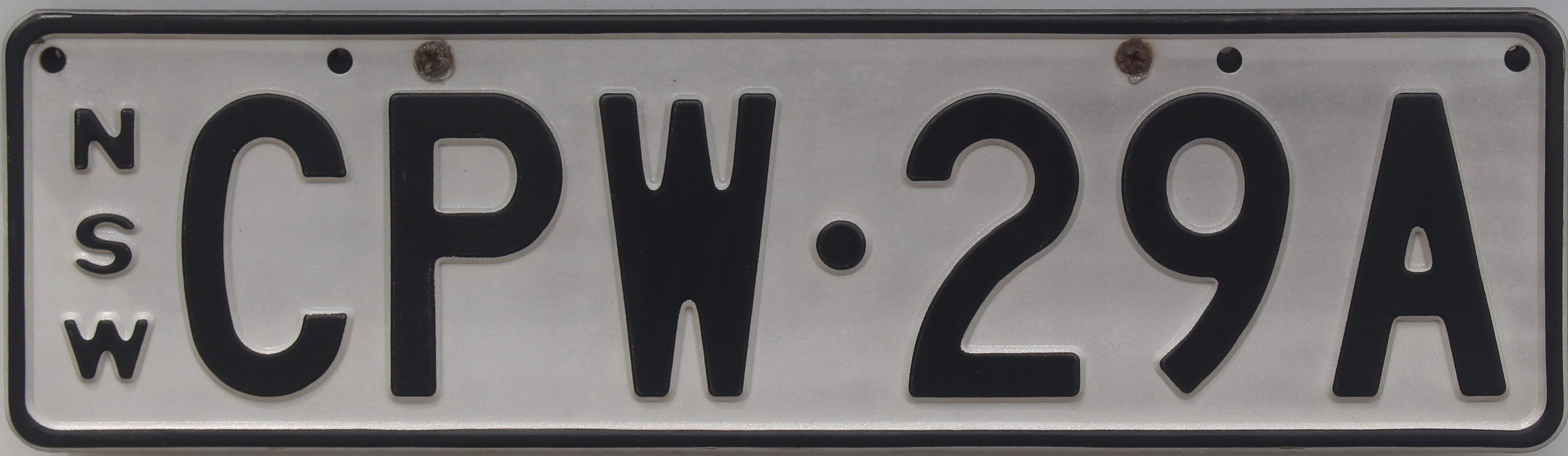 1991 New South Wales registration plate CPW•29A slimline, registered to a Land Rover Discovery.